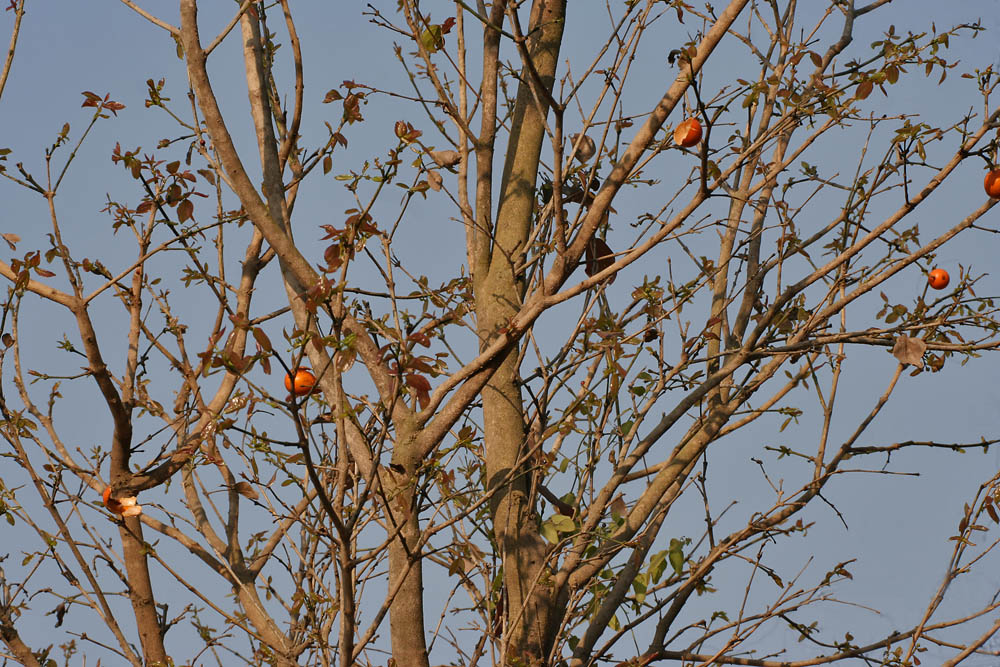 Poison Nut, Semen strychnos, Quaker Buttons, Strychnine tree or Nux vomica Strychnos nux-vomica in Kinnerasani Wildlife Sanctuary, Andhra Pradesh, India.